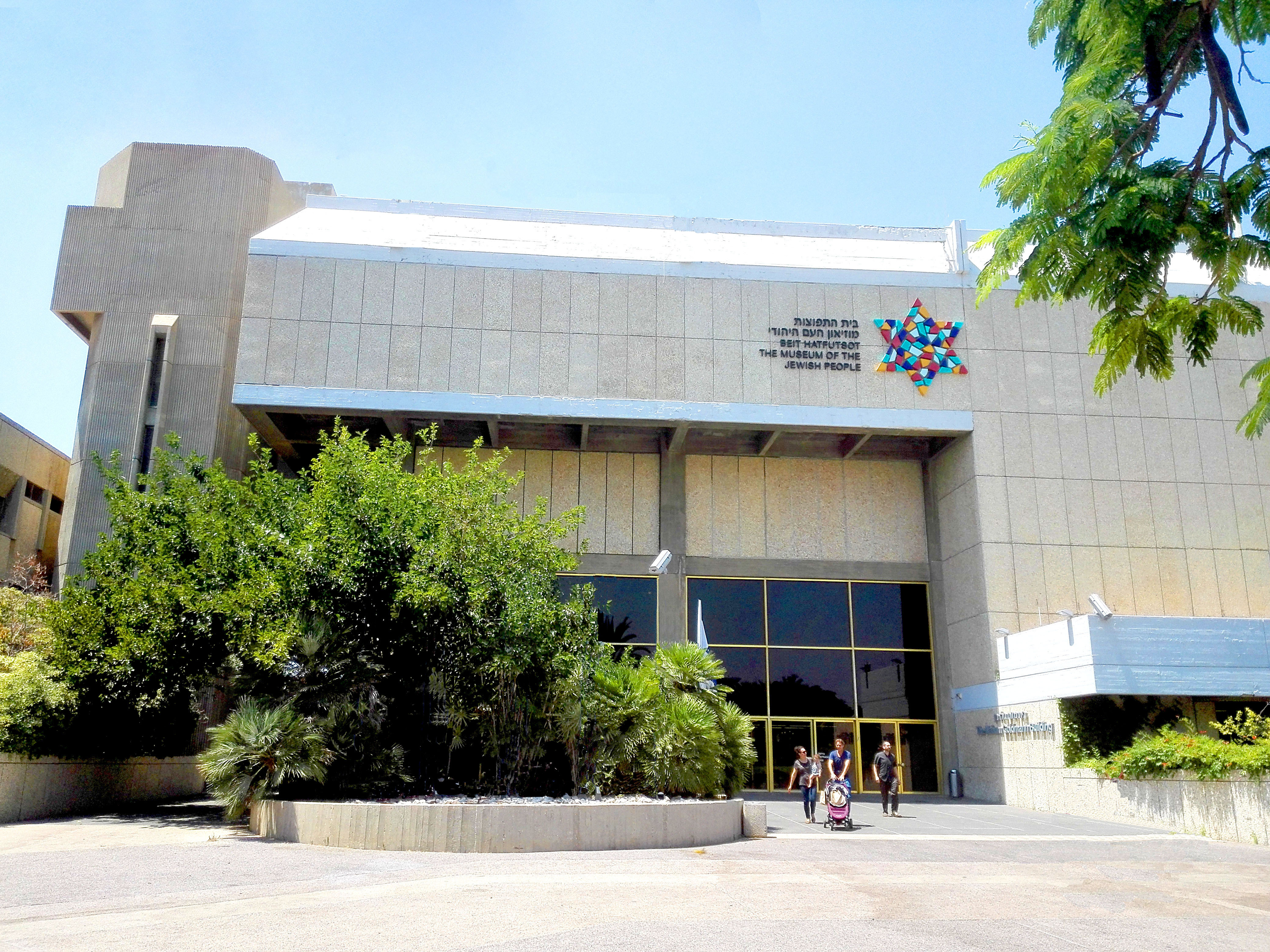 Entrance door for the Museum of the Jewish People at Beit Hatfutsot